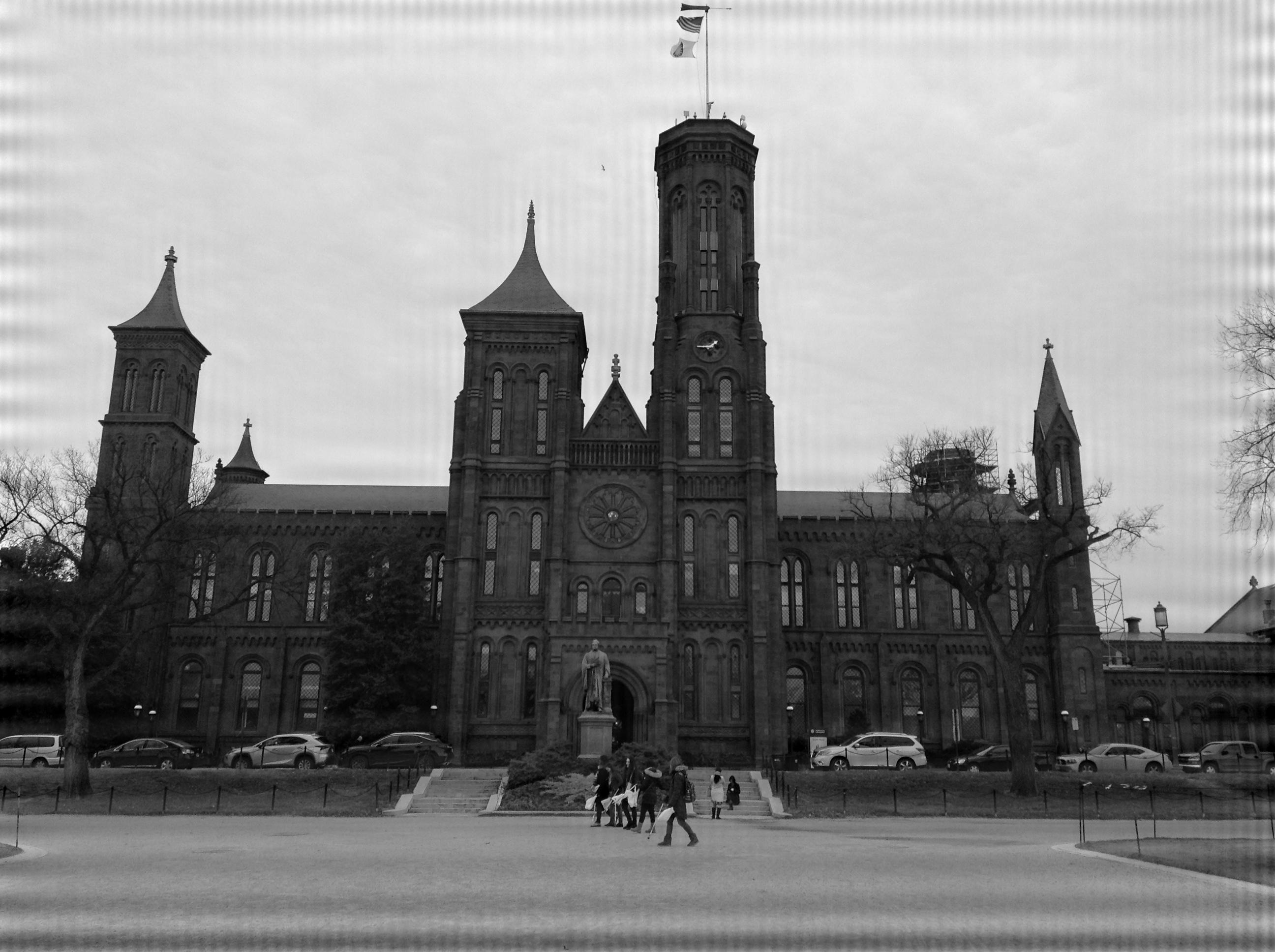 An image I took of the Smithsonian Institution Building while I was in Washington D.C. that I have injected with periodic noise, followed by notch filtering in the frequency domain.